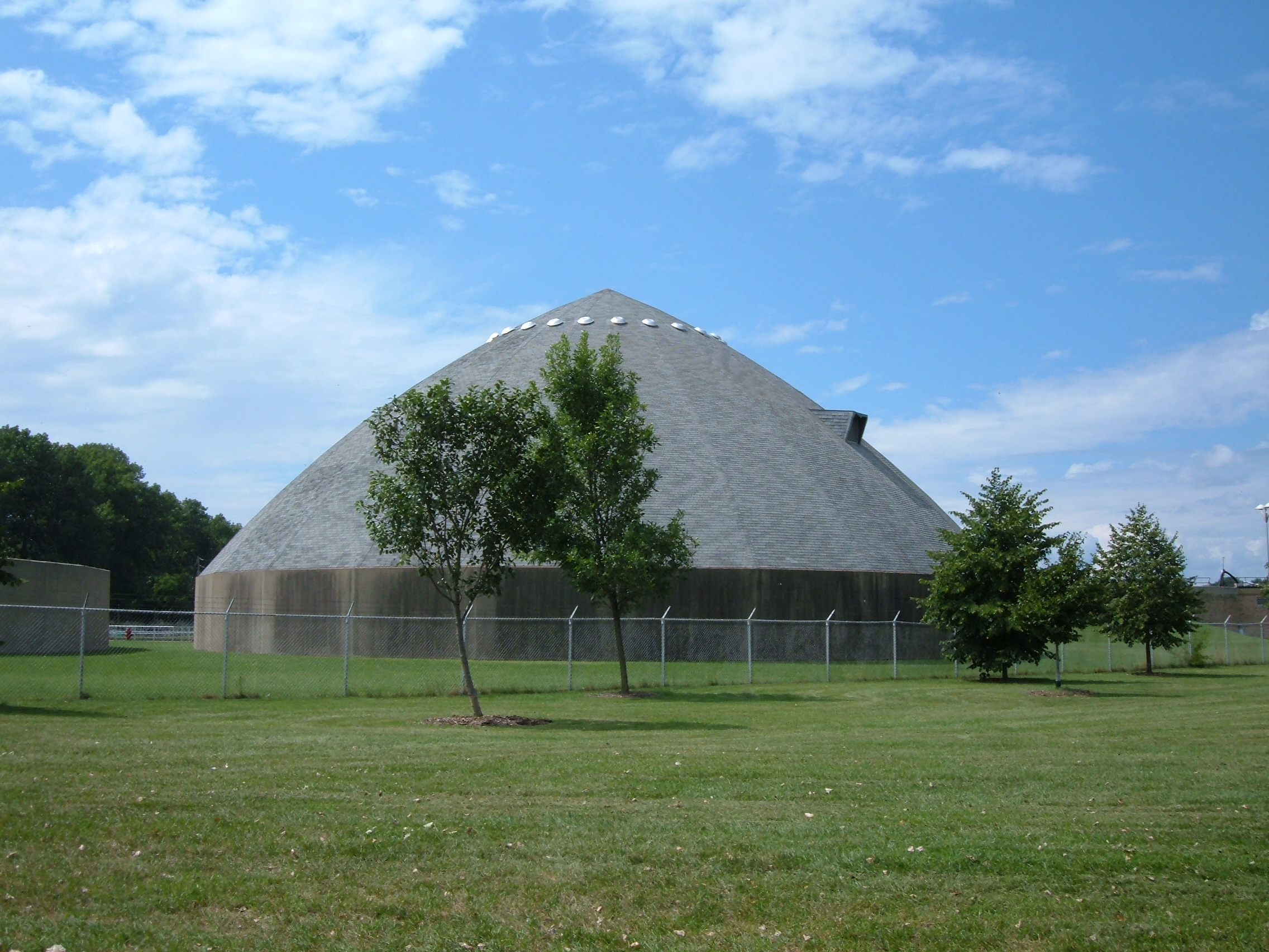 A salt shed near Lake MichiganSalt storage for winter roads